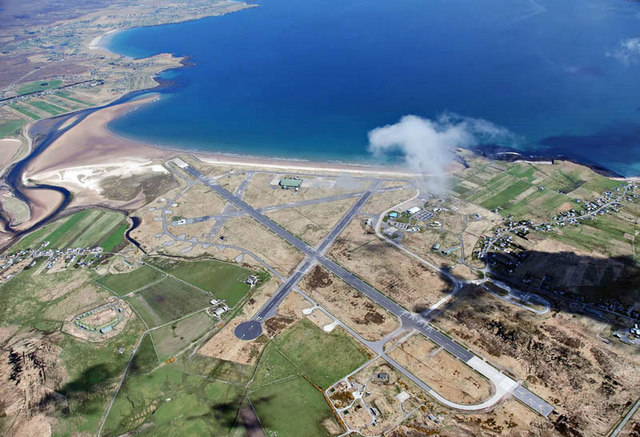 Stornoway Airfield An overview of Stornoway airfield. Opened in 1937, primarily for military use, it is now a commercial airfield owned by Highlands & Islands Airports Ltd. (HIAL).